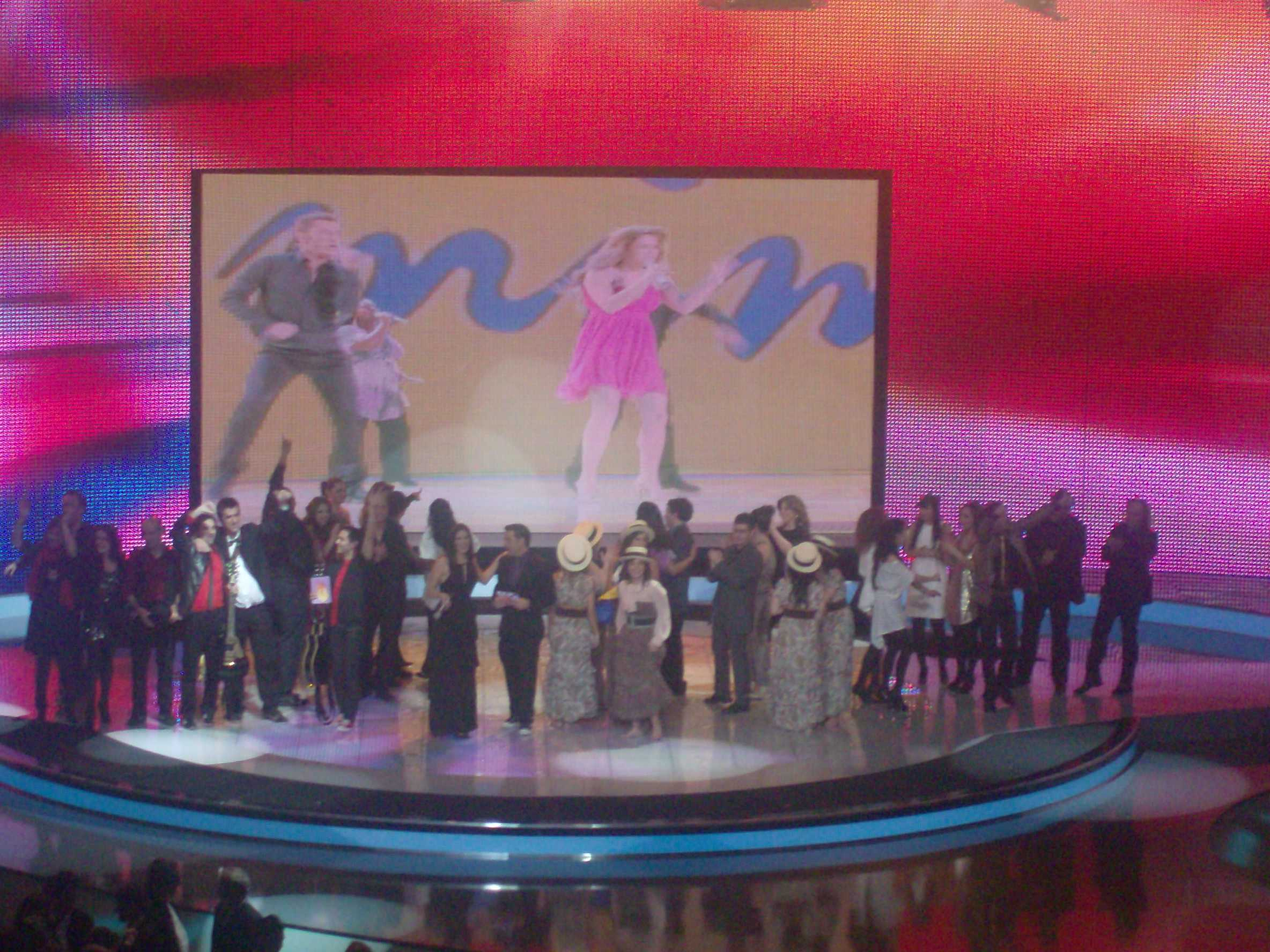 Festival RTP da Canção 2010 2nd semifinal